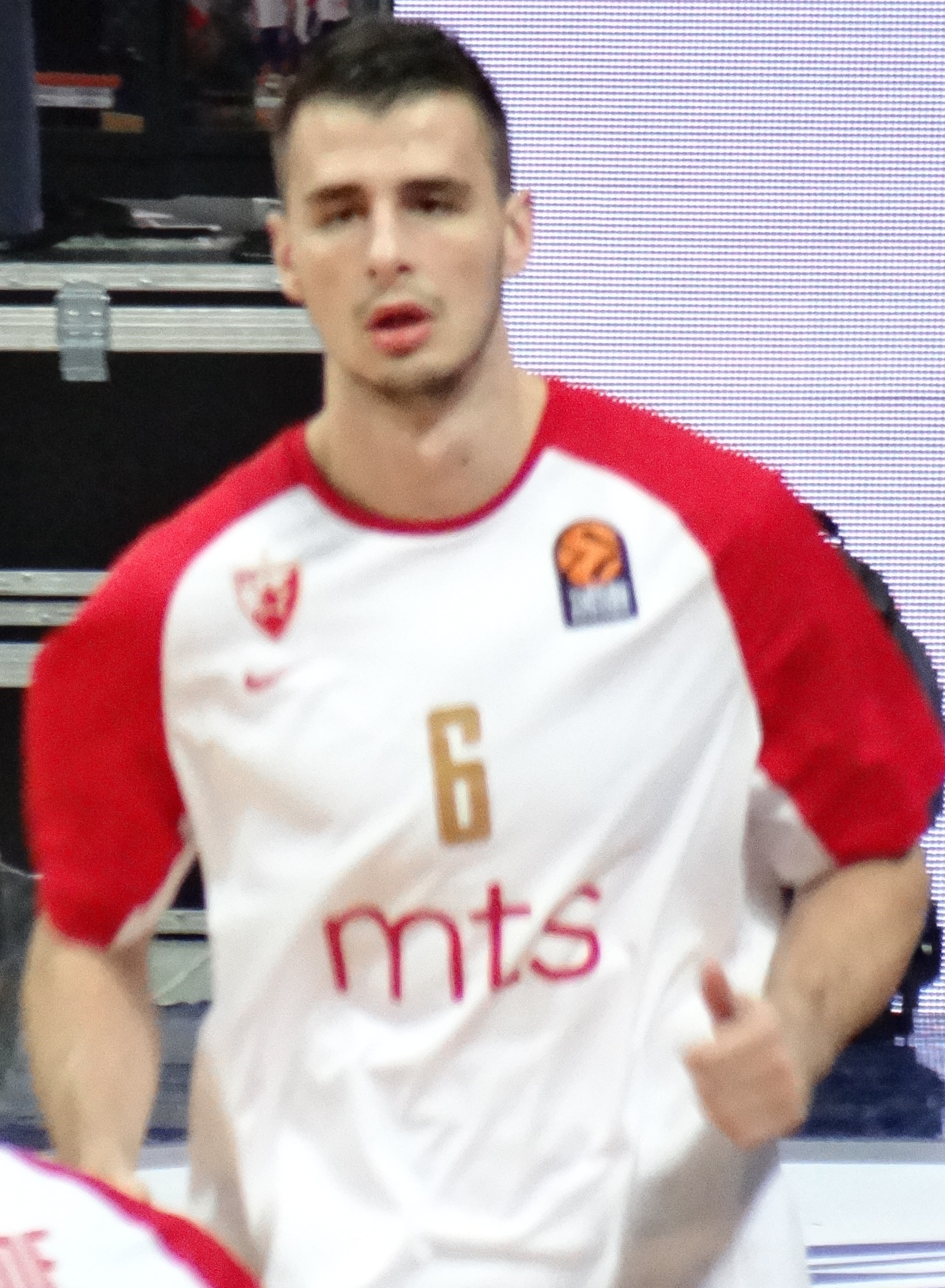 Nemanja Dangubić 6 KK Crvena zvezda 20171219